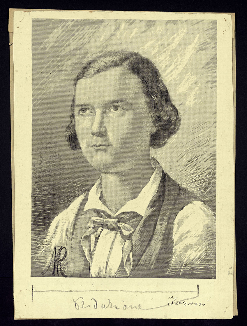 Portrait of Jacopo Foroni, composer (1824-1858), before 1858.